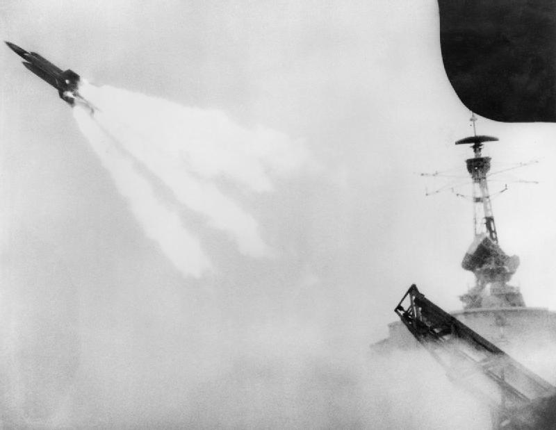 The firing of the first test missile from trials ship HMS Girdle Ness (A387) during the development of the Sea-Slug ship-to-air missile. The antennae of some of the radar equipment used to track the missile can be seen above the bridge of the ship. The missile is the Armstrong-Whittley 'Sea Slug' Mark I missile. It was the Royal Navy's first generation guided missile and was designed to counter Soviet high-altitude, nuclear-armed bombers. It had the official Royal Navy designation as GWS 1 (Guided Weapons System Mark 1) Original caption: NAVY TESTS GUIDED MISSILE Her Majesty's Ship GIRDLE NESS, commissioned on July 24th, 1956, as a guided weapon trial ship, has since carried out a number of trials. On September 10th, a test missile, from which a sea to air guided missile is being developed, was successfully fired. Other successful firings have followed. In the House of Commons today (24th October) the Parliamentary secretary of the Admiralty, Mr Simon Wingfield Digby, M.P. have the foregoing particulars in answer to a question by Commander J.F.W. Maitland, Conservative, (Horncastle).[1]